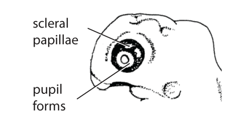 Standard Event System character depiction